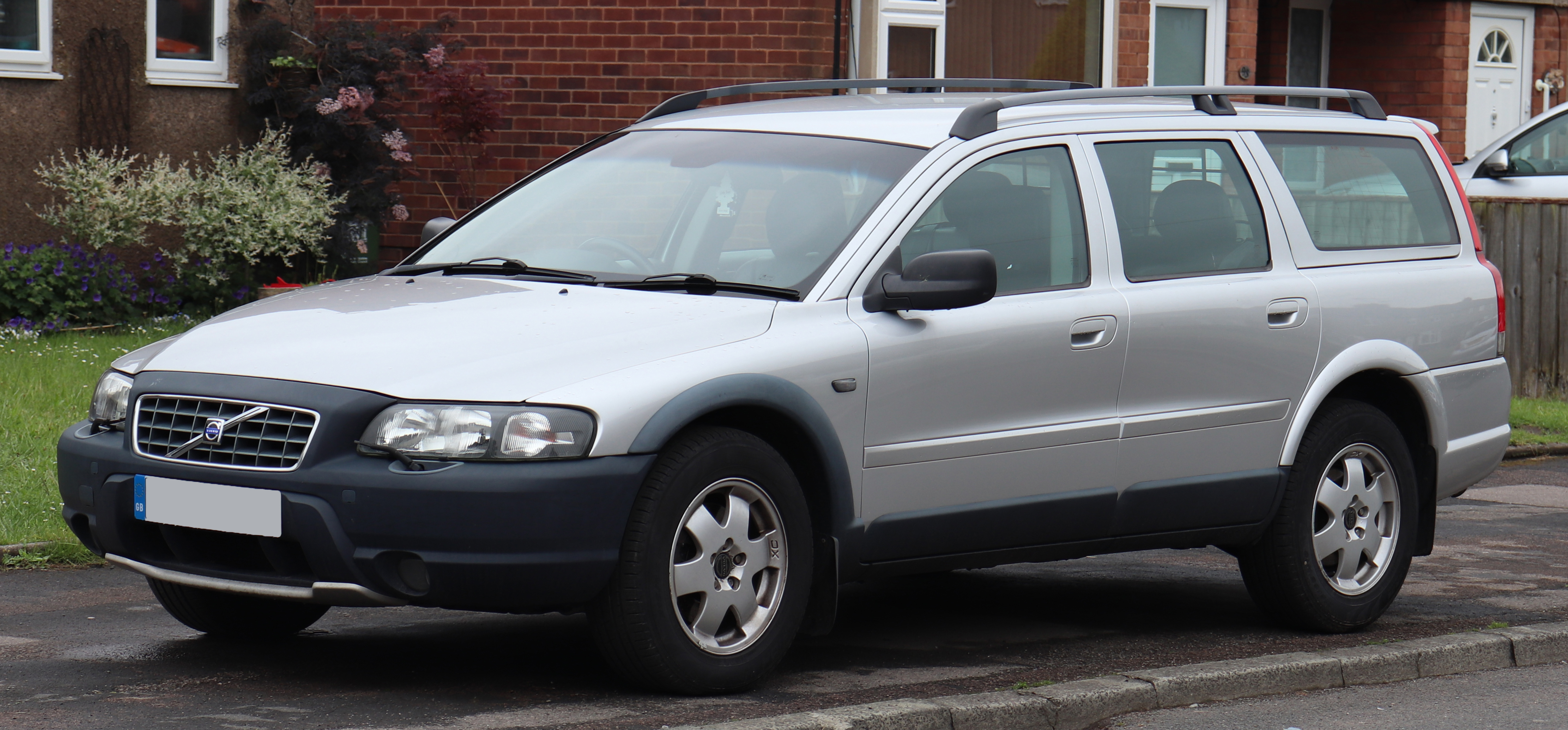 2004 Volvo XC70 D5 SE AWD Geartronic 2.4 Front Taken in Warwick